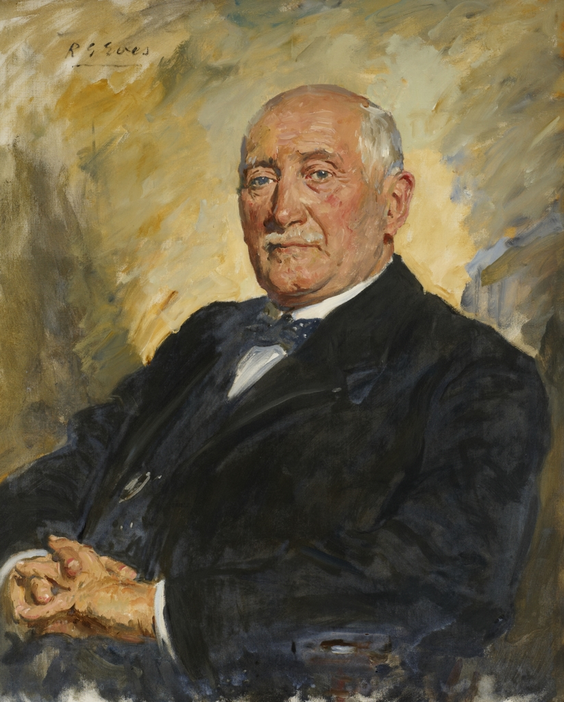 Painting by Reginald Grenville Eves (1876–1941), painted 1937